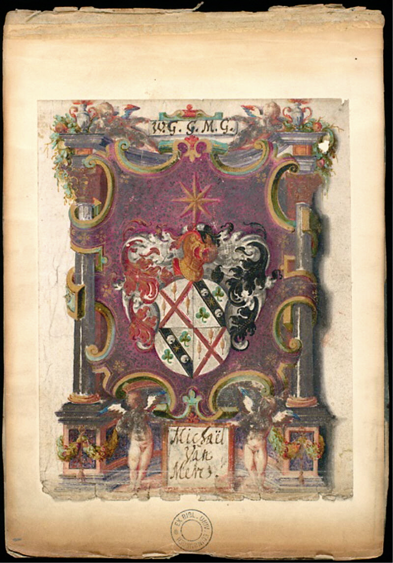 Edinburgh University Library Special Collections December 2006 January 2007 Michael van Meer, Album Amicorum, (or Stam Boek, Stamboek, Stammbuch, book of friends) 17th century Michael van Meer (Antwerp, ca. 1590 - Hamburg, October 13 1653) Album started 1613, ended 1648 527 pages, 774 contributions (entries) More information about the Van Meer Album in RAA REPERTORIVM ALBORVM AMICORVM Internationales Verzeichnis von Stammbüchern und Stammbuchfragmenten in öffentlichen und privaten Sammlungen Department Germanistik und Komparatistik, Friedrich-Alexander-Universität Erlangen-Nürnberg